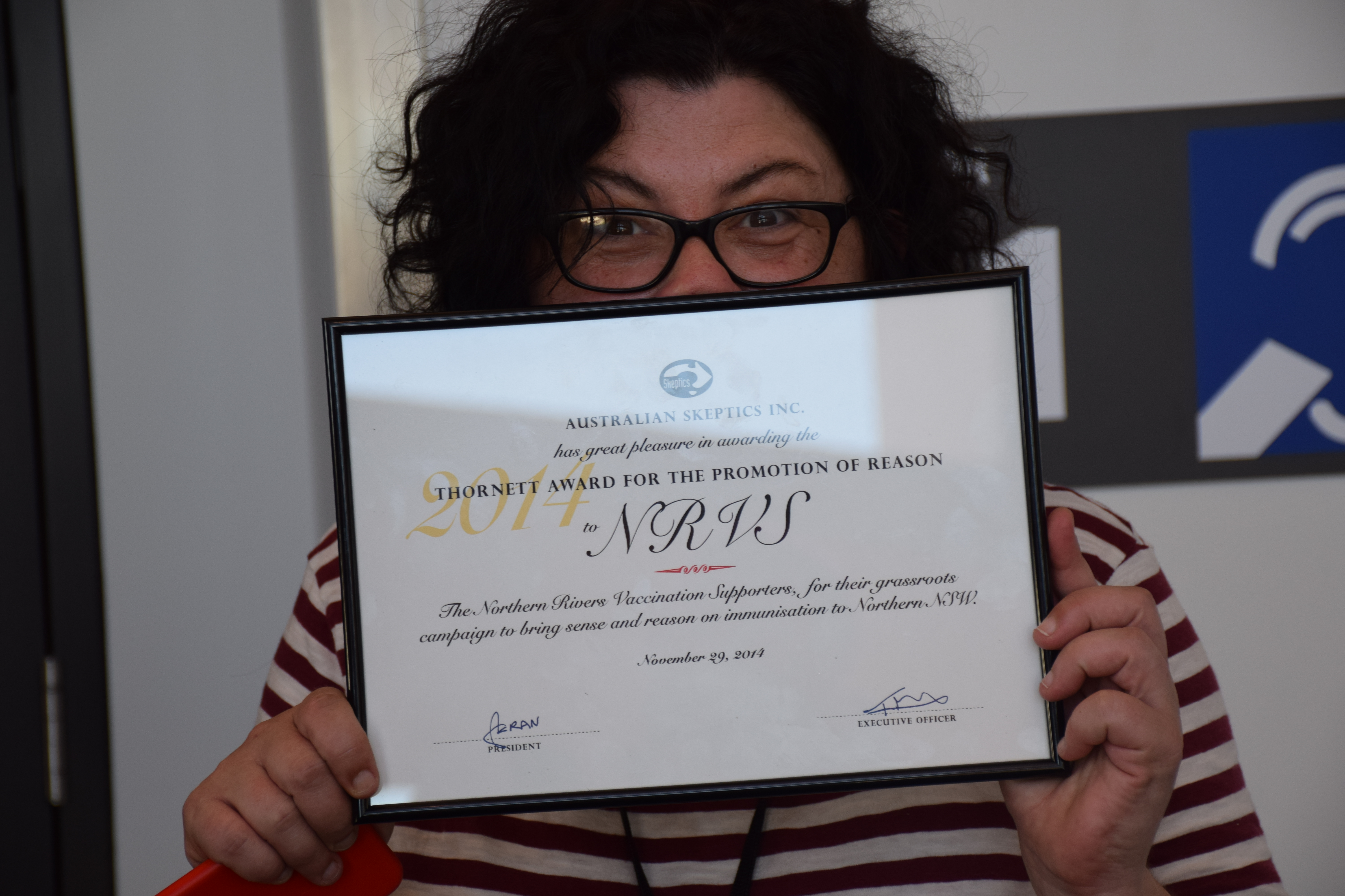 Alison Gaylard of the Northern Rivers Vaccine Supports group with the award presented to NRVS for the promotion of reason at the 2014 Australian Skeptics National Conference